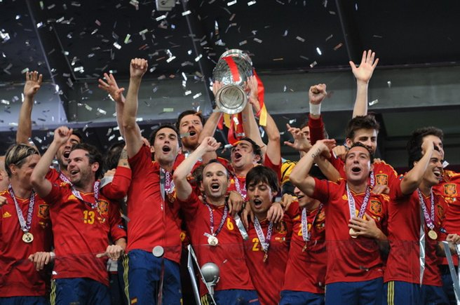 Spain national football team receives Euro 2012 trophy